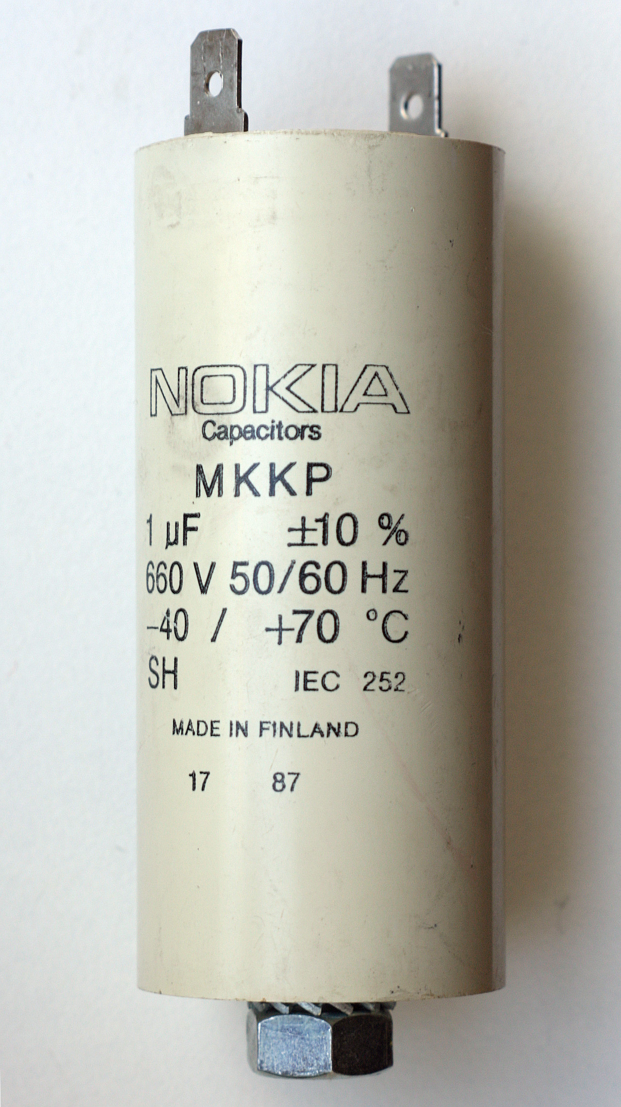 A used Nokia-brand capacitor, 1 µF, 660 V